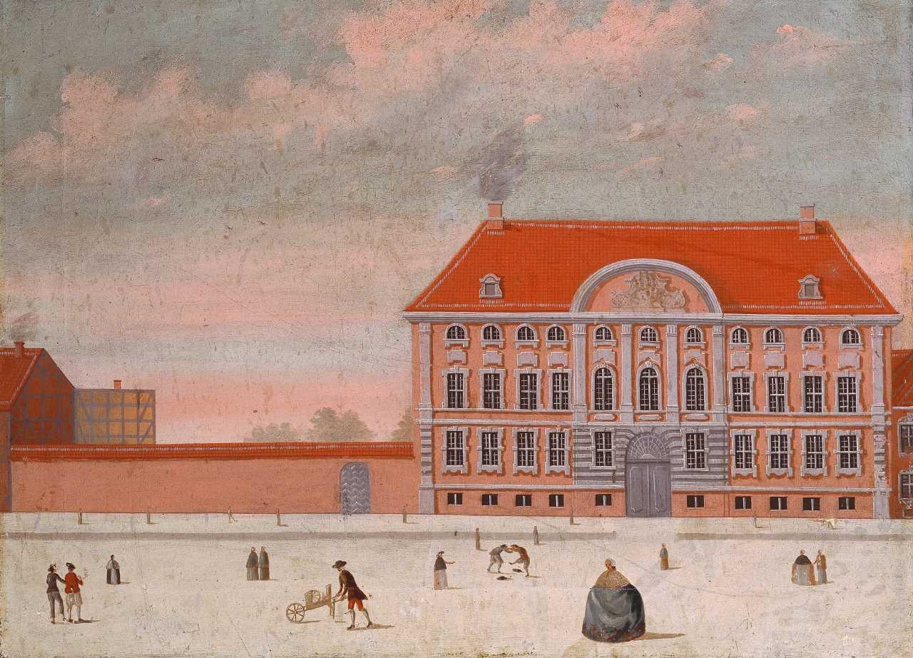 Grev Laurvigens Gaard. Store Kongensgade 68 in Copenhagen, Denmark